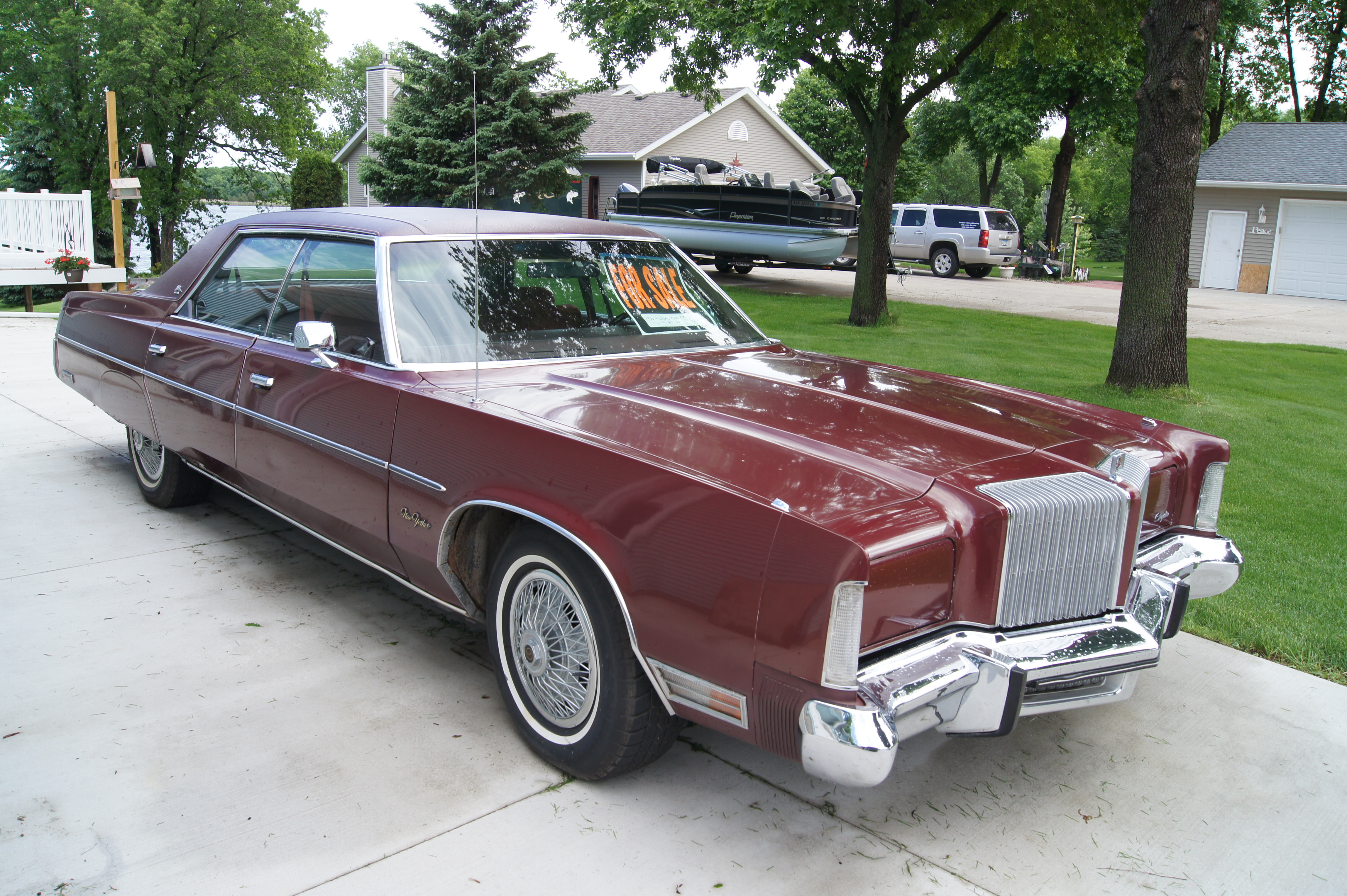 A friend from the Willmar Car Club told me that his neighbor had this New Yorker for sale. I stopped by and found out it has 62,000 miles and belongs to the neighbor's elderly father-in-law, that has had it for the last 20 years. Stored inside the car was used for Sunday drives in nice weather. It has a 440-V8. I would be more interested, but I already have a 1978 New Yorker with 46,000 miles. I do like the dark red color better than my pale yellow though. 1978 New Yorker: Other car pictures